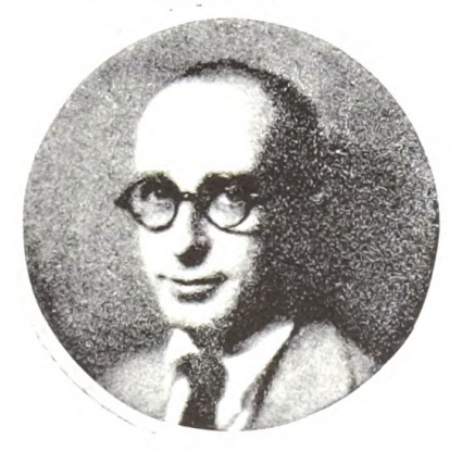 Portrait photographer James E. Abbe